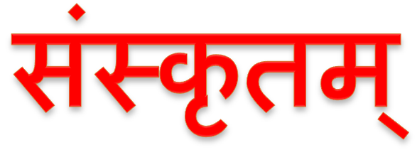 The word Sanskrit in Devanagari script